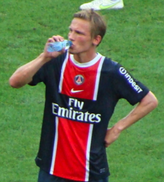 Chlément Chantôme, French Footballer